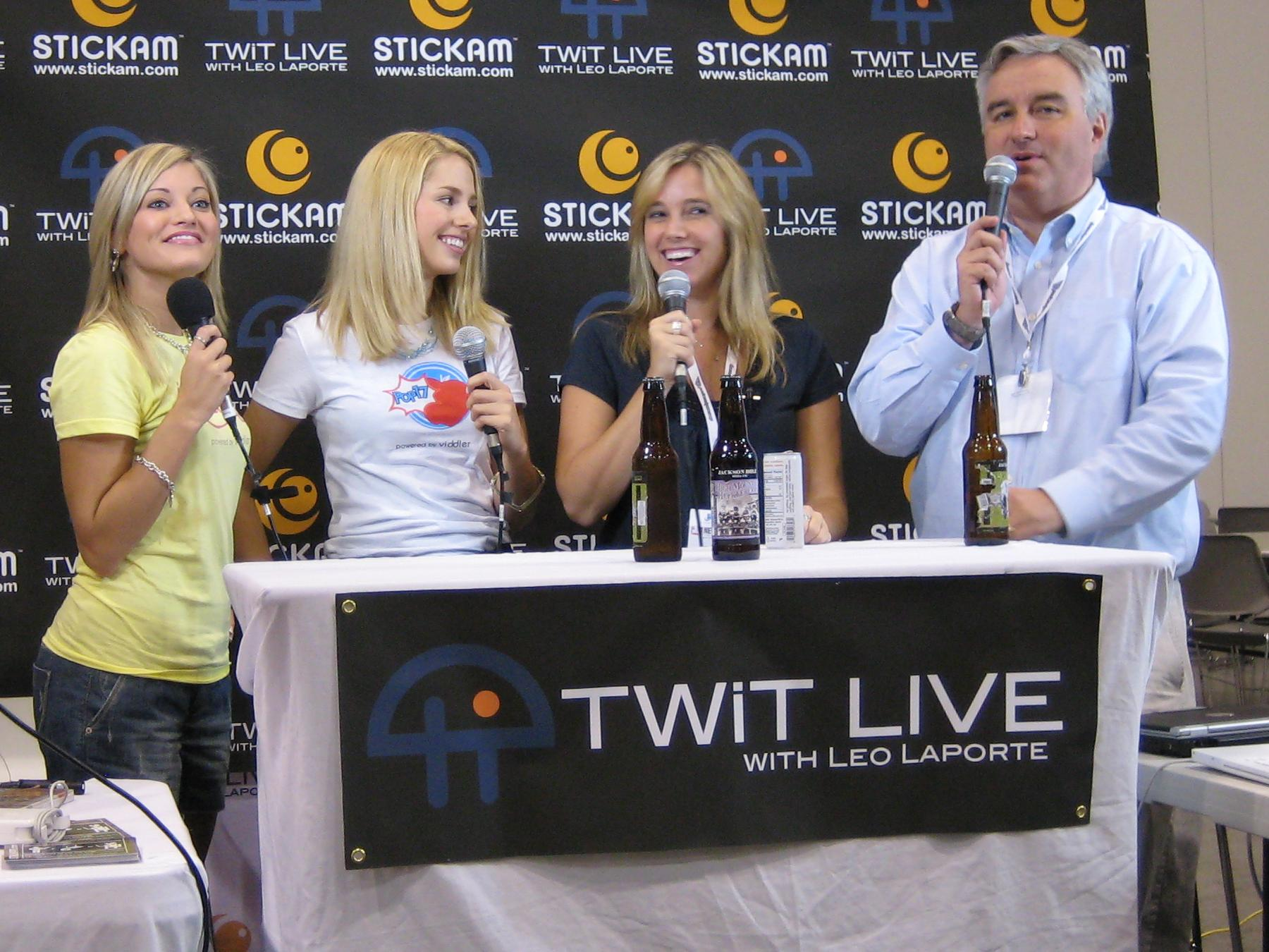 Justine Ezarik, Sarah Austin, MacArthur and Leo Laporte at New Media Expo 2008.